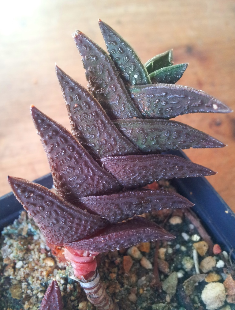 Haworthia nigra in cultivation - detail of leaves - Cape Town